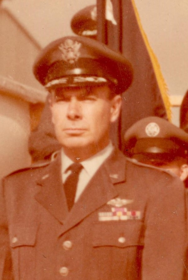 Colonel John E. Pickering, USAF